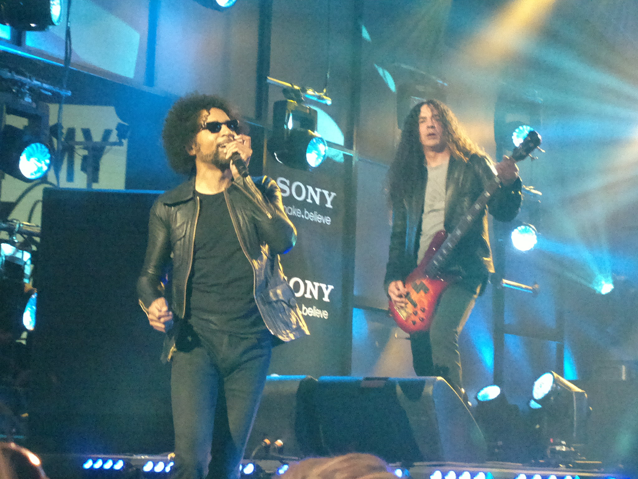 Alice in Chains live at 2013